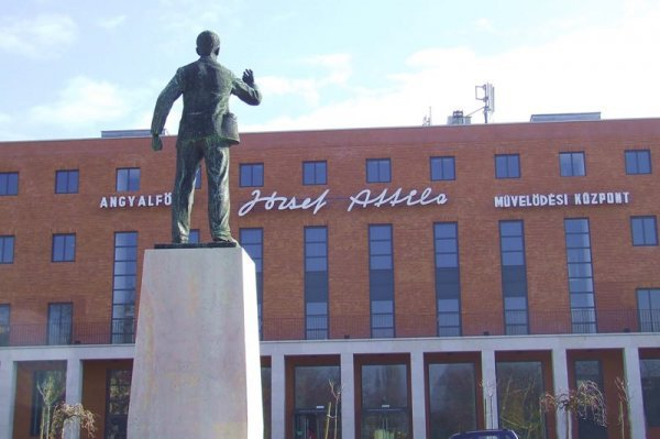 Statue of Attila Jozsef (2)(Budapest, Hungary)